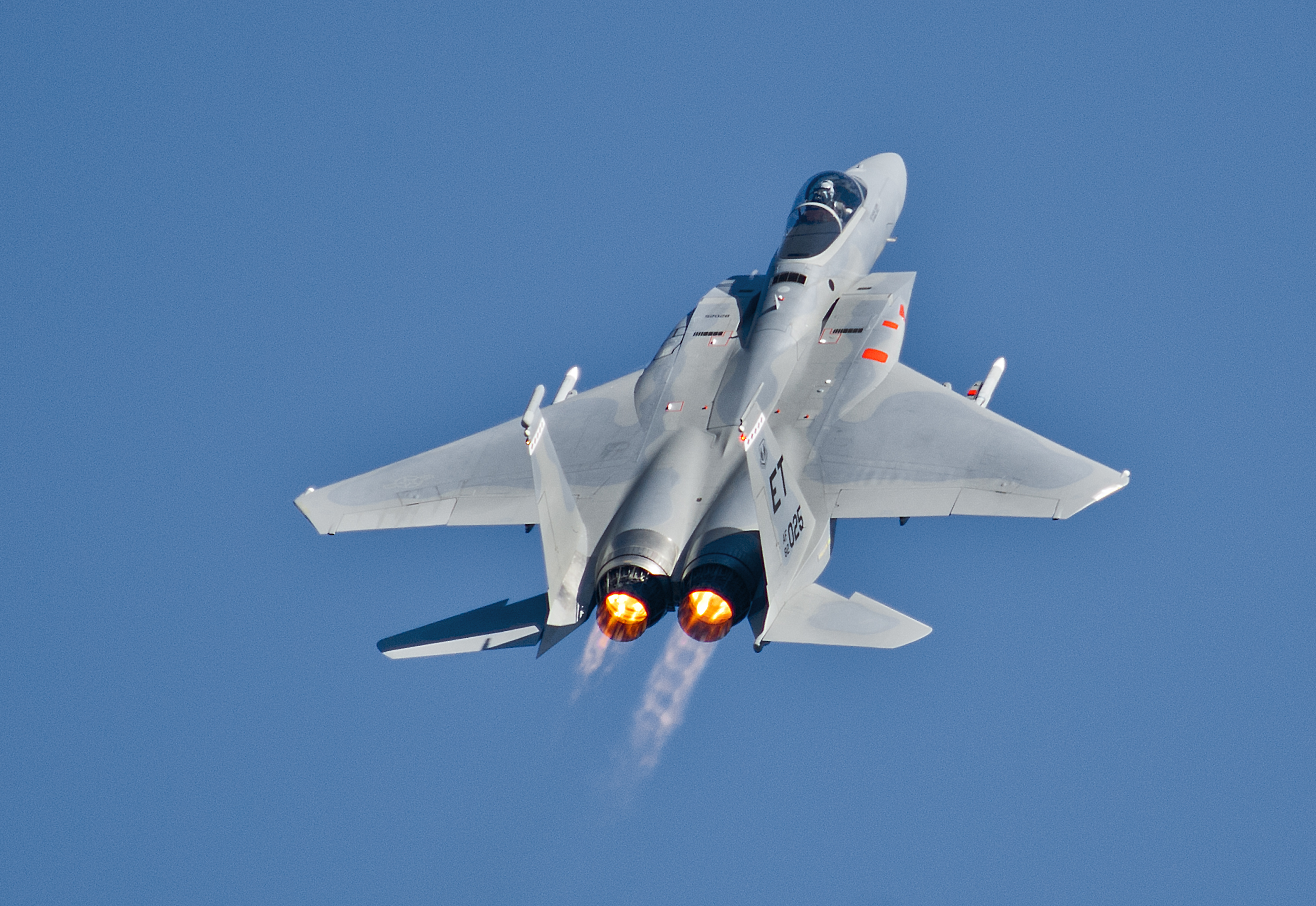 A 40th Flight Test Squadron F-15 Eagle soars upon takeoff for a morning sortie Oct. 23, 2014, at Eglin Air Force Base, Fla. Airmen from the 40th FTS fly operational test missions in the F-16 Fighting Falcon, F-15 and A-10 Thunderbolt II. The 40th FTS is assigned to the 96th Test Wing. (U.S. Air Force photo by Samuel King Jr./Released)